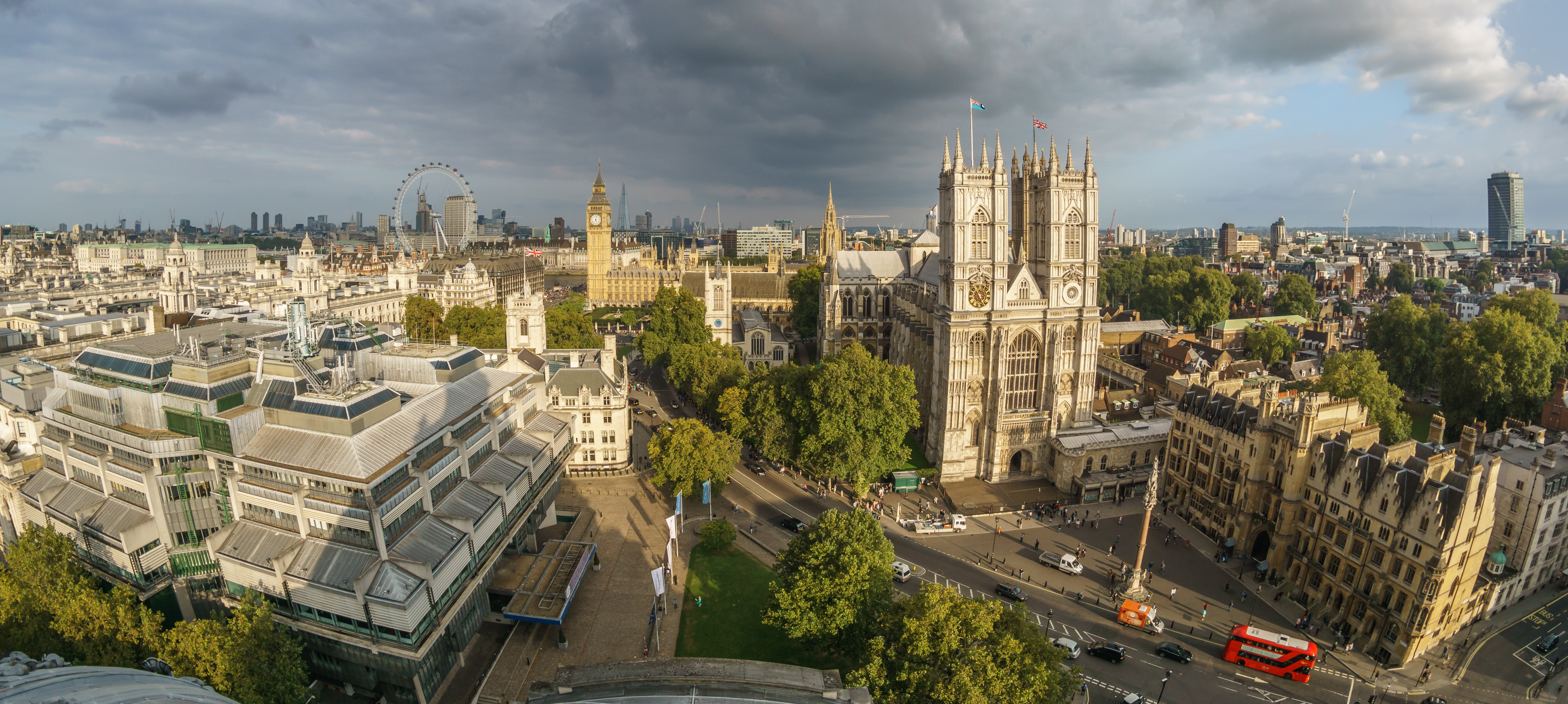 Westminster from the dome on Methodist Central Hall. The dome is casting a shadow on the Queen Elizabeth II Conference Centre. Photographer's notes: This image was taken with a Sony A77II camera and Samyang 8mm fisheye lens. The dome of Methodist Central Hall is only open to the public once a year on Open House London weekend. Wikidata has entry Q17527410 with data related to this building.